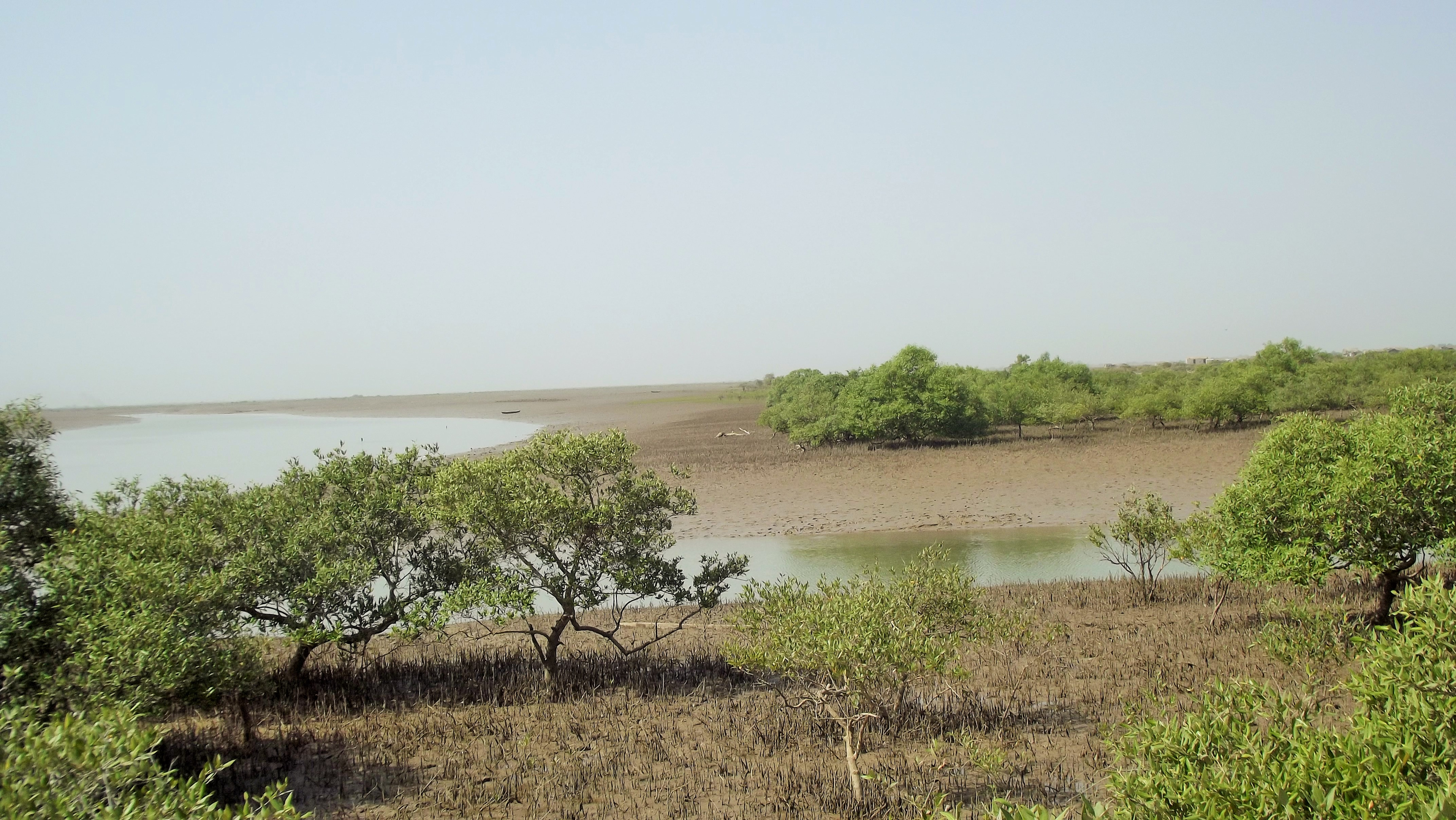 Mangroves on the Indus delta Sindh